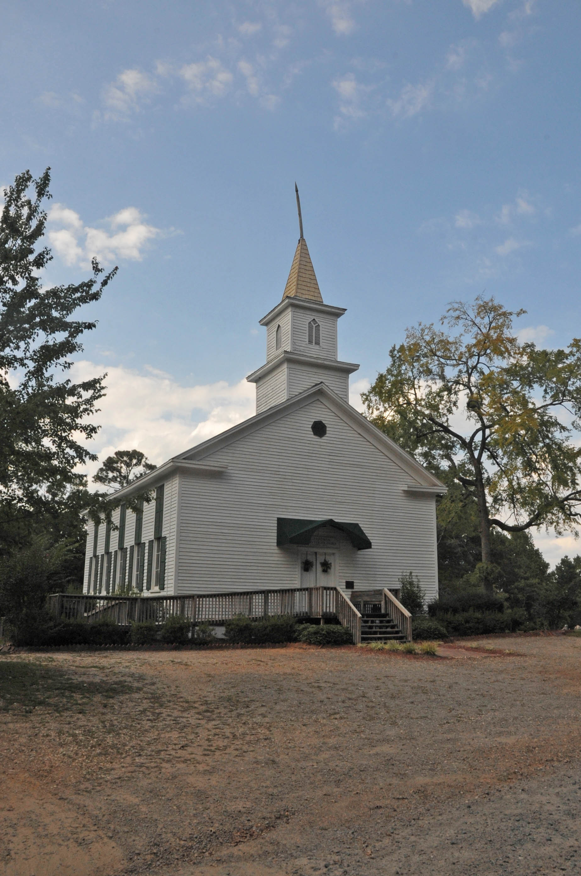 ESTABLISHED IN 1819 AND CHURCH BUILT IN 1886